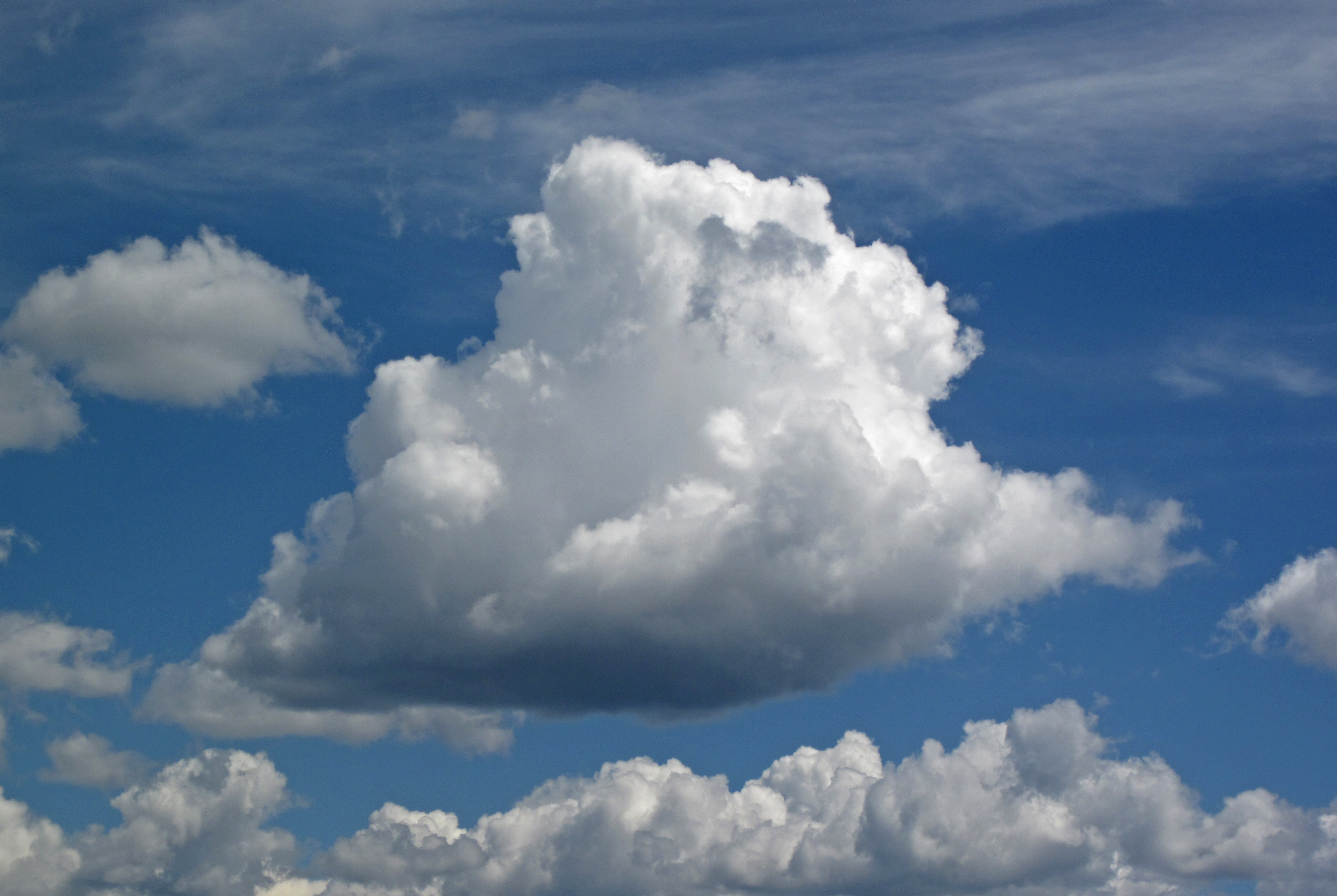 Locality: view from the Castle Group, Upper Geyser Basin, Yellowstone, Wyoming, USA